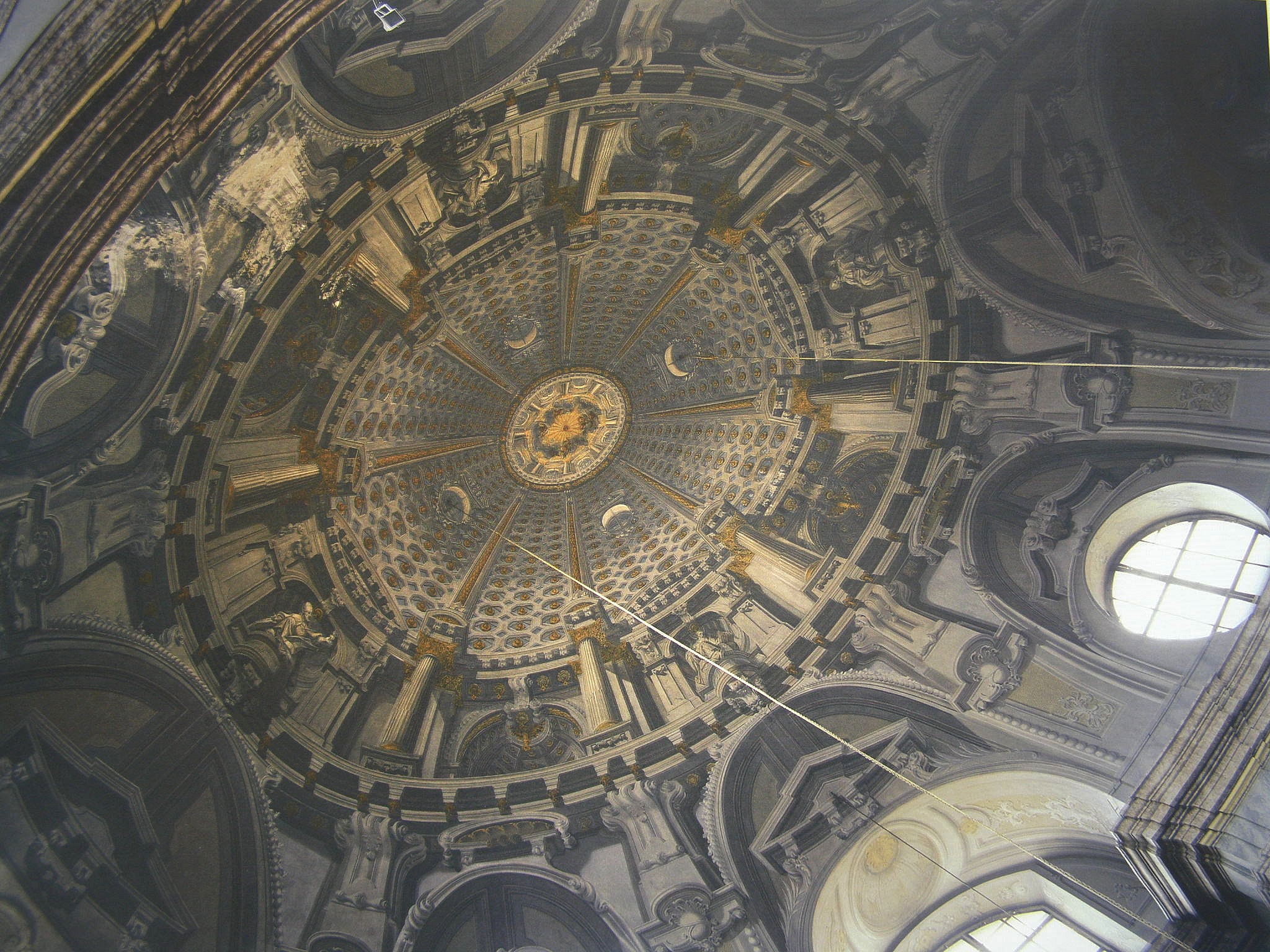 The fresco on the vault of the Church of Saints John of Matha and Felix of Valois in Bratislava by Antonio Galli Bibbiena (1744 - 1745)